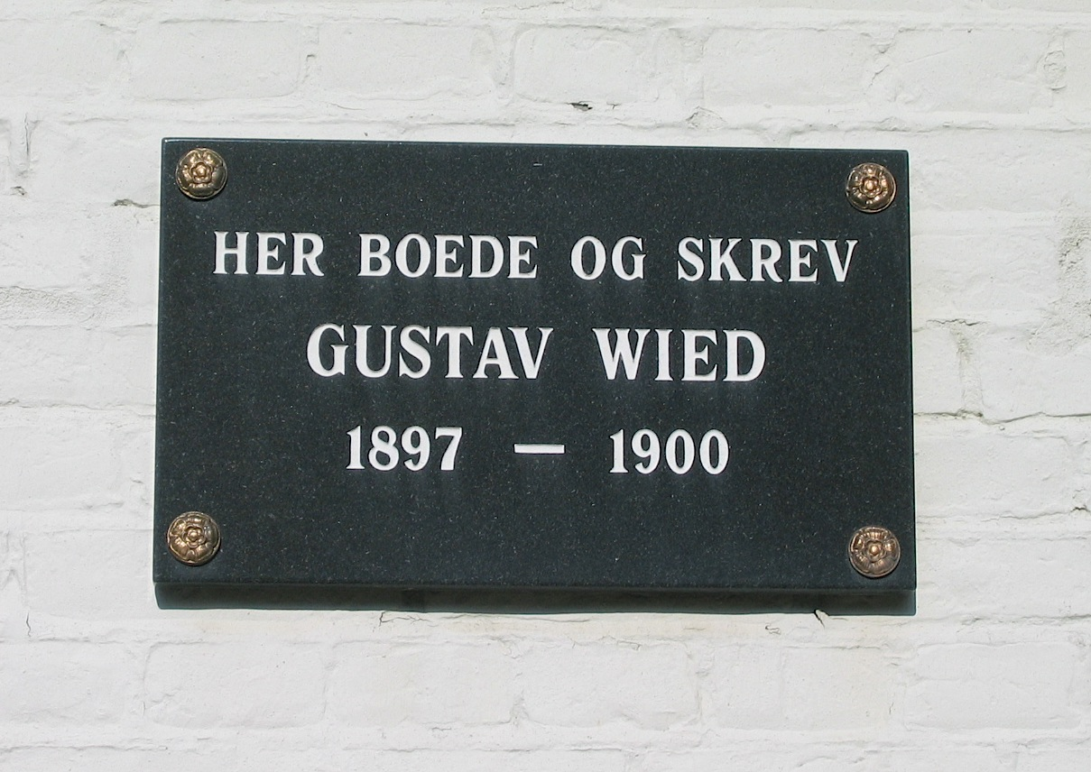 Memorial plaque on the house where Gustav Wied lived from 1897 to 1900, Roskilde, DenmarkDansk: Mindeplade på det hus hvor Gustav Wied boede fra 1897 til 1900, Roskilde, Danmark